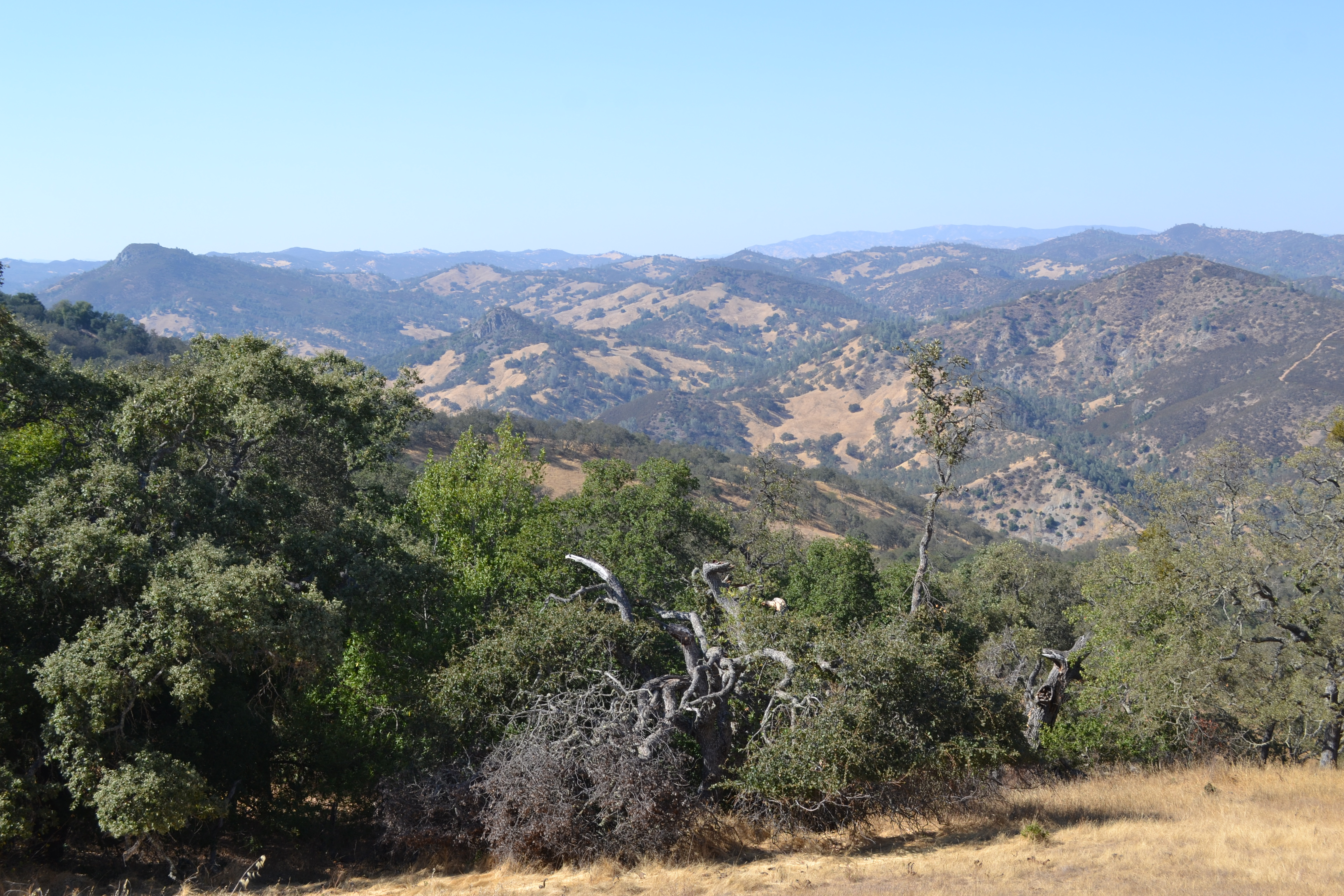 Henry W. Coe State Park Close to Dowdy Ranch Visitor Center.